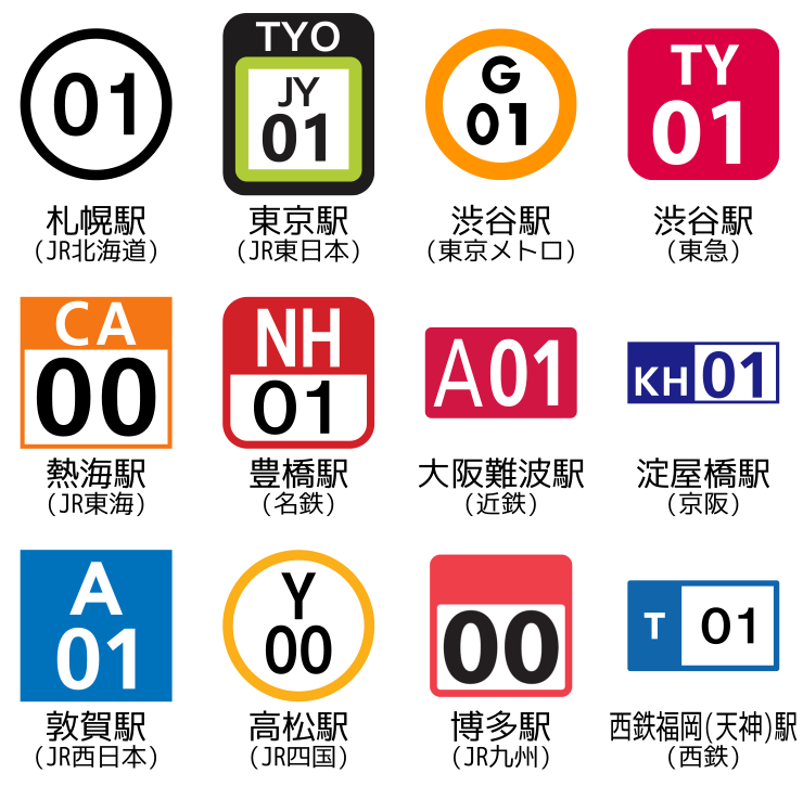 Station Number icons in Japan.